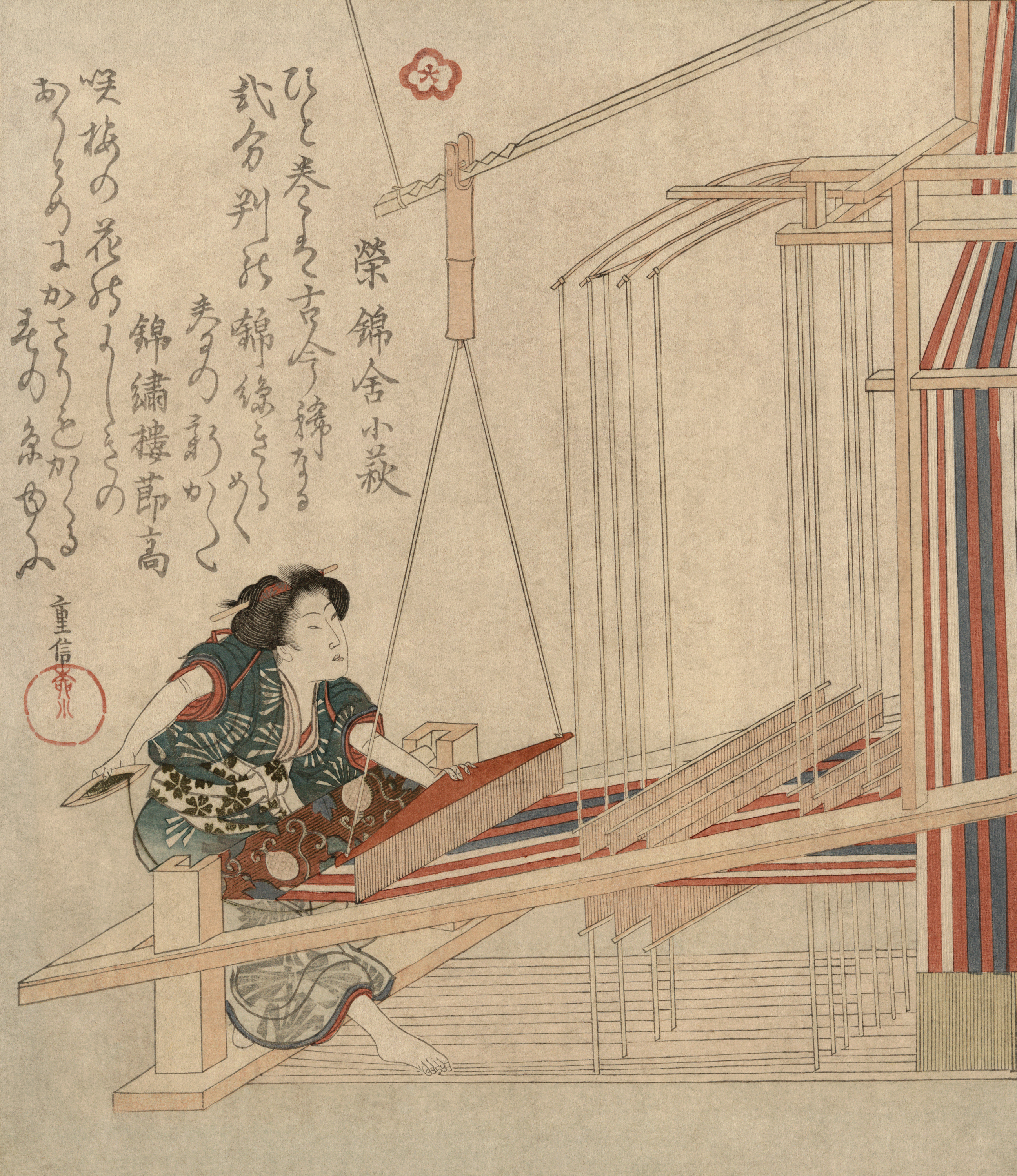 "Hataori" (Weaving) woodcut print